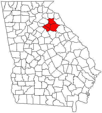 Map of Georgia highlighting the Athens-Clarke County Metropolitan Statistical Area; created with the GIMP. Made by User:Acntx.